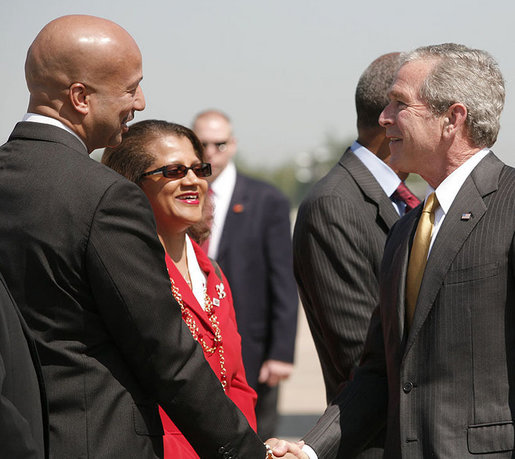 President George W. Bush (right) is greeted by New Orleans Mayor Ray Nagin (left) and his wife, Seletha Smith Nagin (center left), on his arrival to Louis Armstrong New Orleans International Airport Monday, April 21, 2008, where President Bush will attend the 2008 North American Leaders' Summit. White House photo by Joyce N. Boghosian